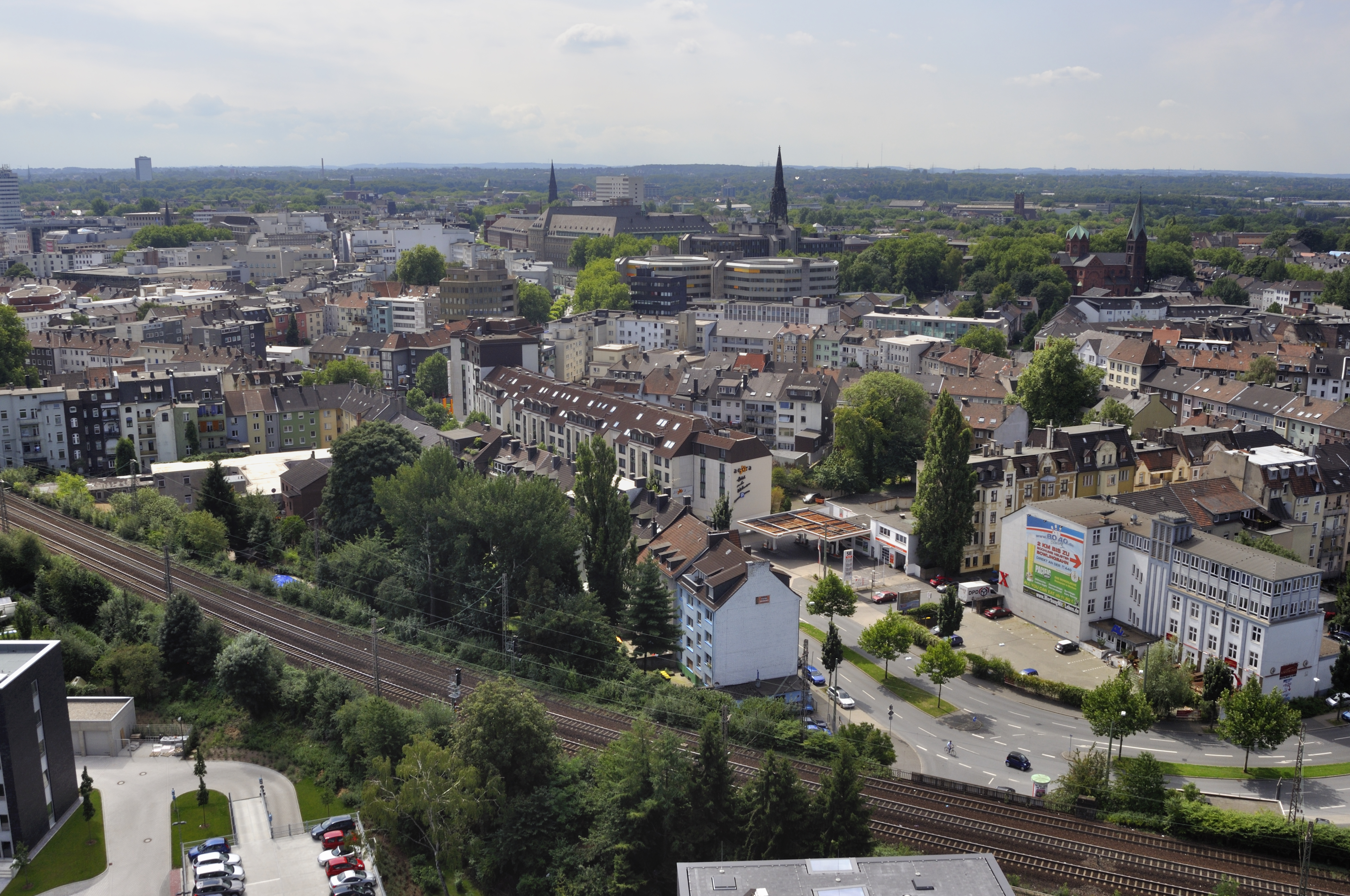 Picture taken in German mining museum Bochum before Duisburg summer meetup.